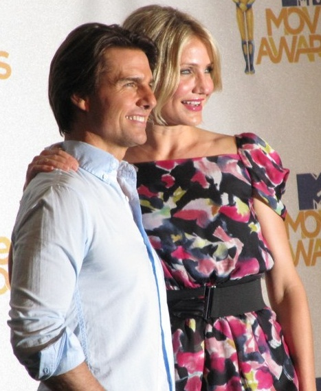 Tom Cruise and Cameron Diaz at the MTV Movie Awards 2010.